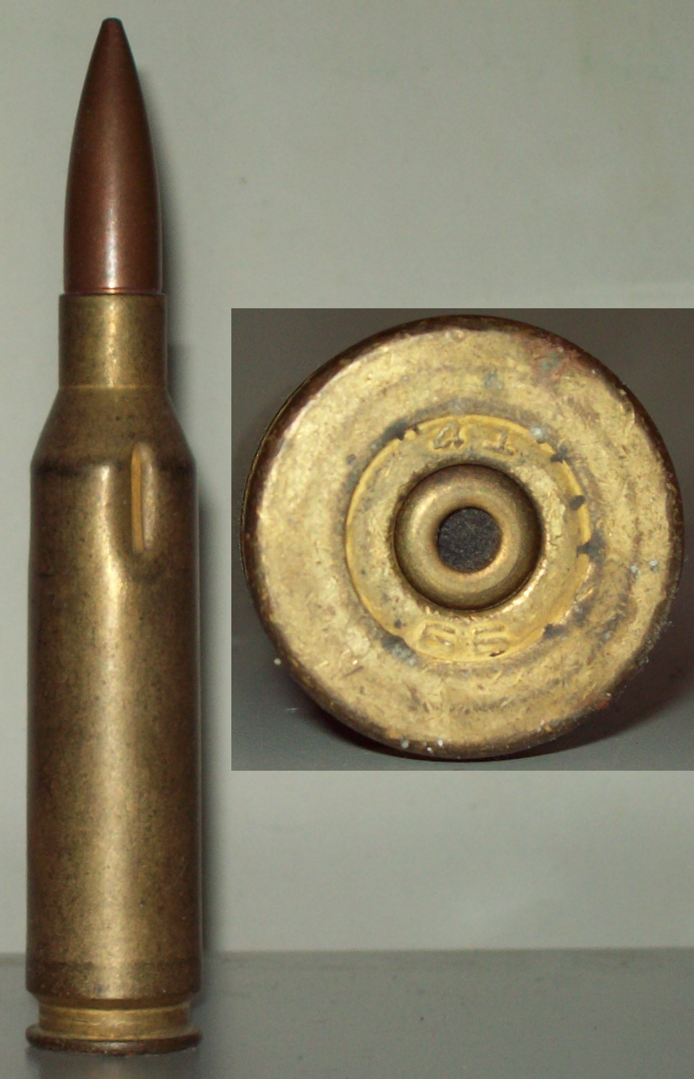 14.5×114mm dummy round